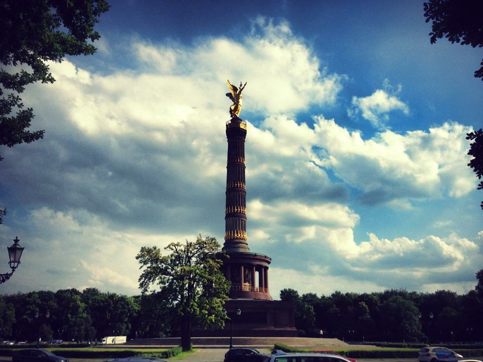 Berlin Victory Column